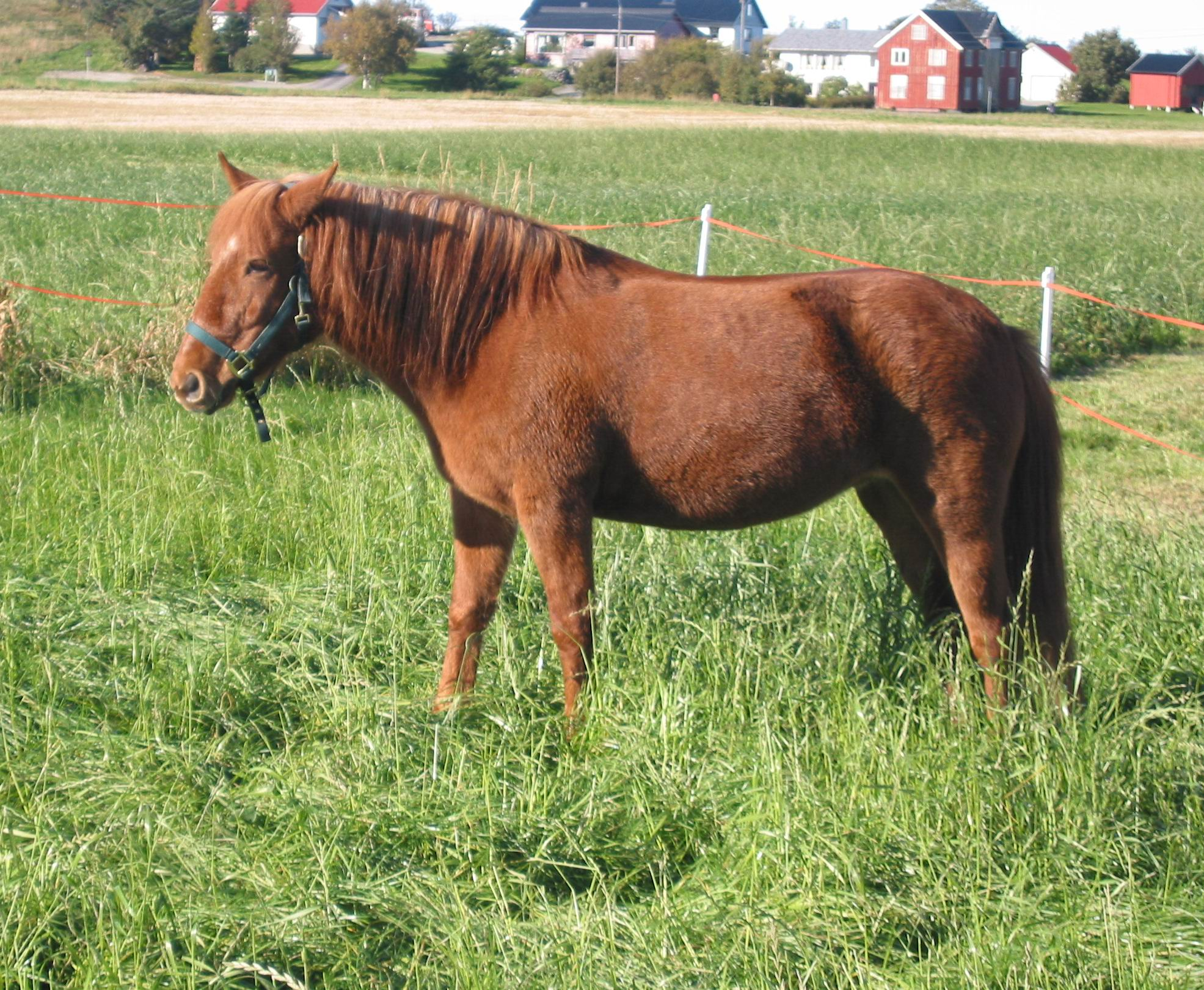 Ninni, a 20-year-old Nordlandshest with good conformation.